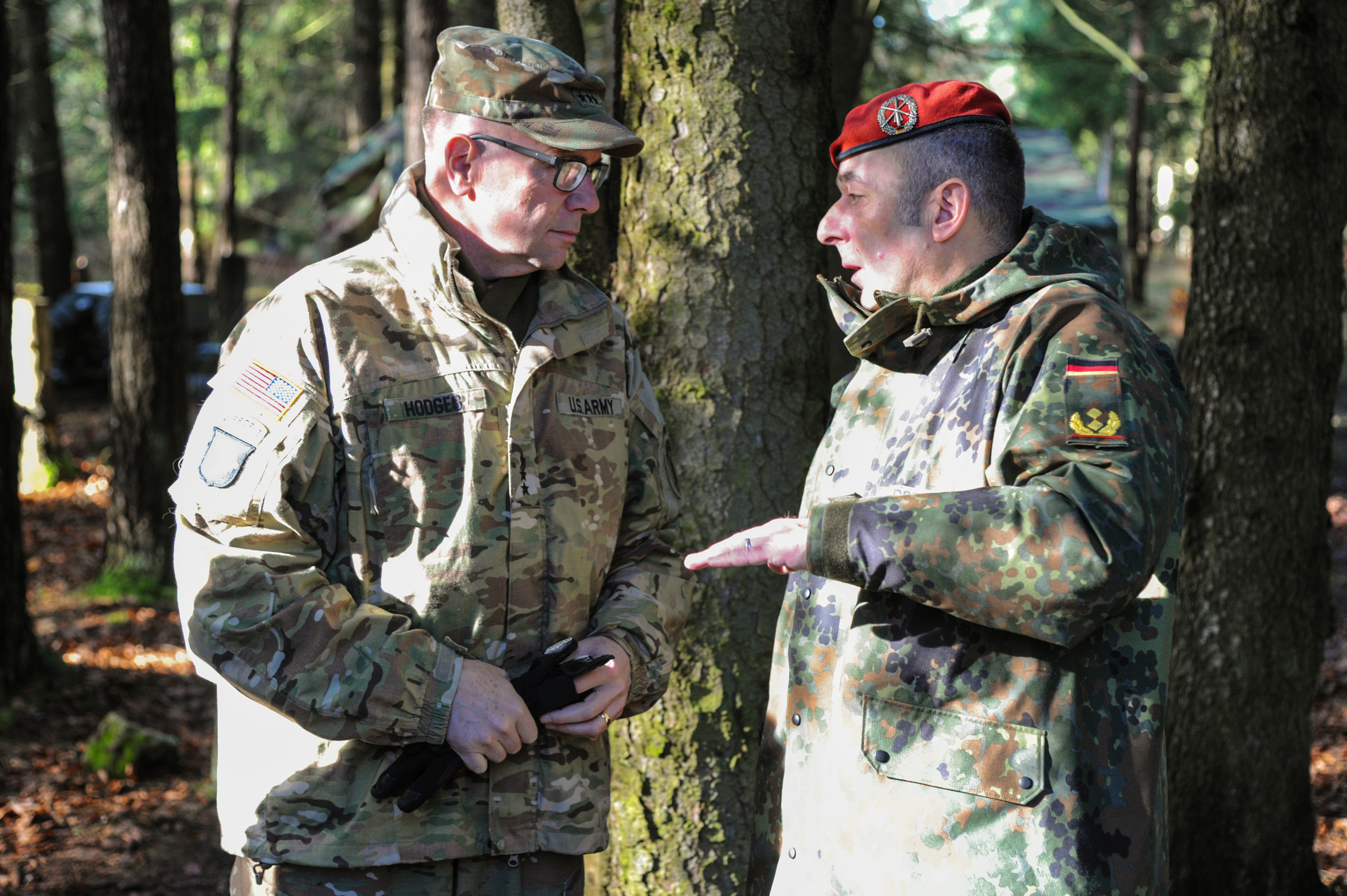 U.S. Army Lt. Gen. Ben Hodges, left, Commanding General of U.S. Army Europe talks to German Army Maj. Gen. Carsten Breuer during Exercise Allied Spirit VII at the 7th Army Training Command’s Hohenfels Training Area, Germany, Nov. 14, 2017. Approximately 4,050 service members from 13 nations are participating in the exercise from Oct. 30 to Nov. 22, 2017. Allied Spirit is a U.S. Army Europe-directed, 7ATC-conducted multinational exercise series designed to develop and enhance NATO and key partner’s interoperability and readiness. (U.S. Army photo by Markus Rauchenberger)